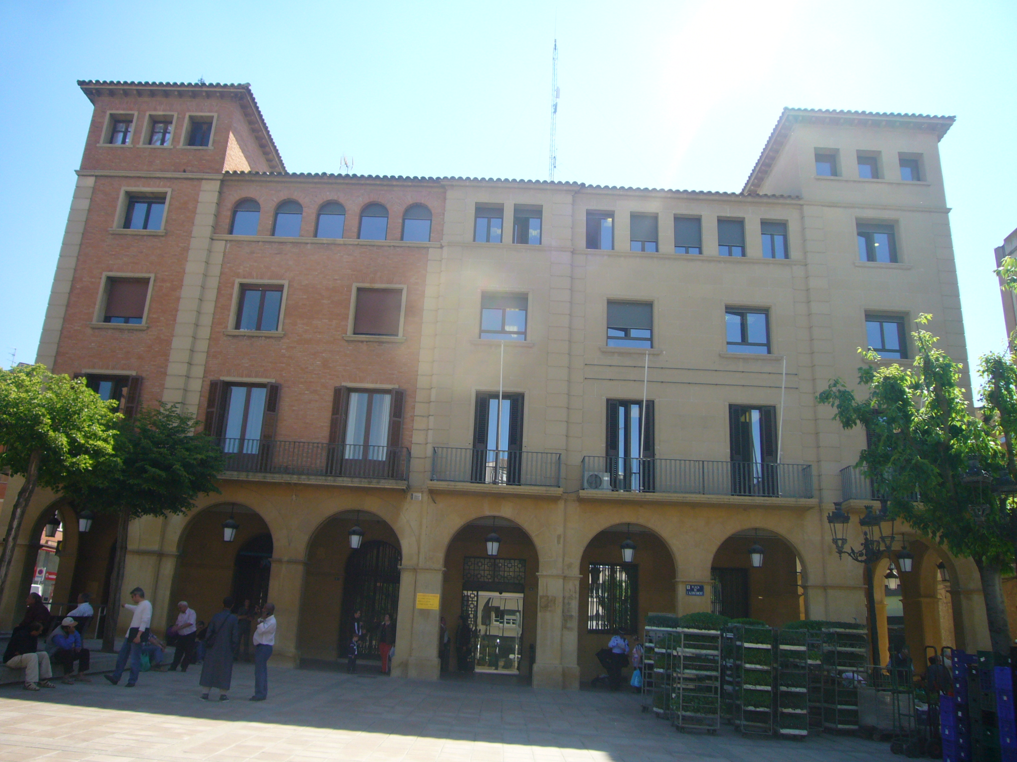 Ajuntament de Mollerussa